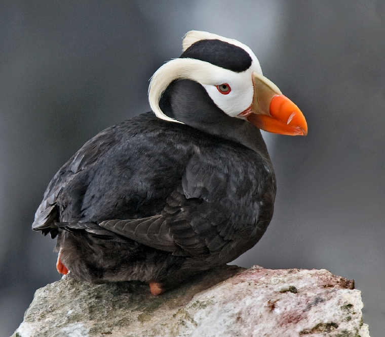 Tufted Puffin, Zapadni Cliffs, St. Paul Island, Alaska